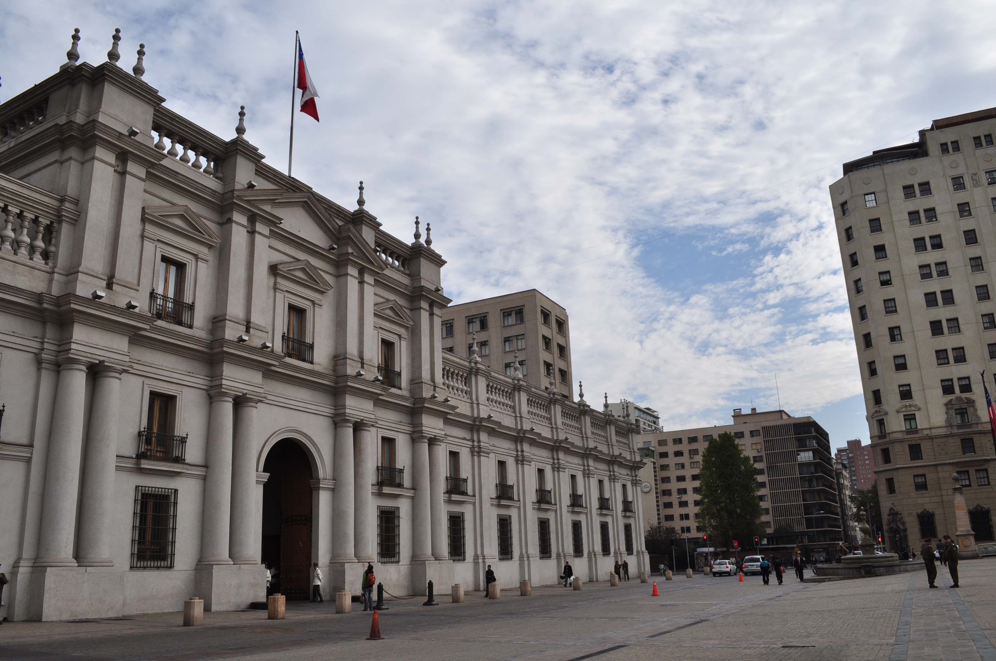 This is a photo of a national monument in Chile: 233